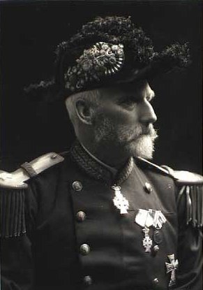 Danish counter admiral Urban Gad (1841-1920), married to author Emma Gad.